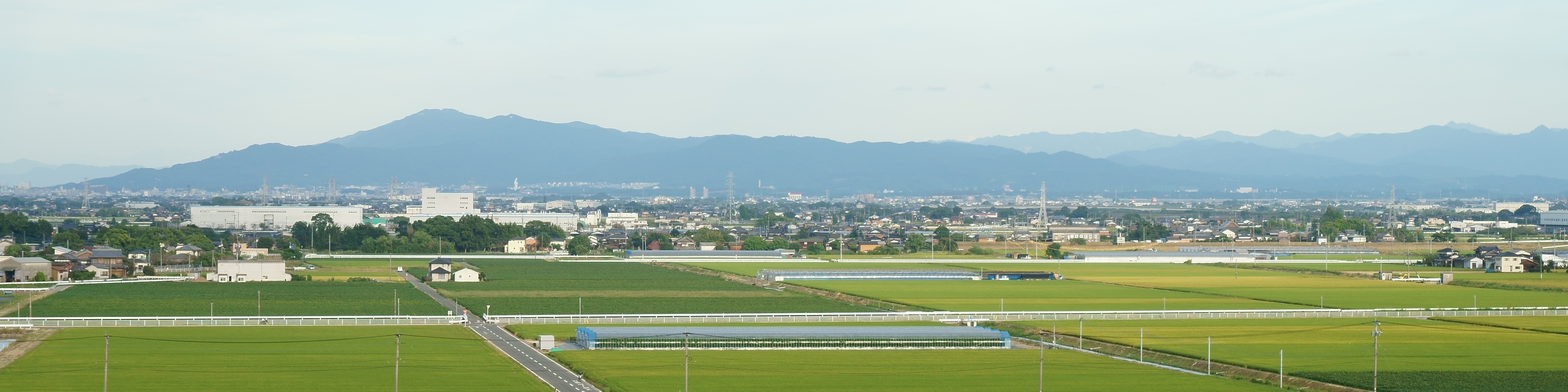 The Minō Mountains in Fukuoka prefecture. This is the view from west(Tower at City hall Chiroda branch office in Kanzaki city, Saga prefecture).